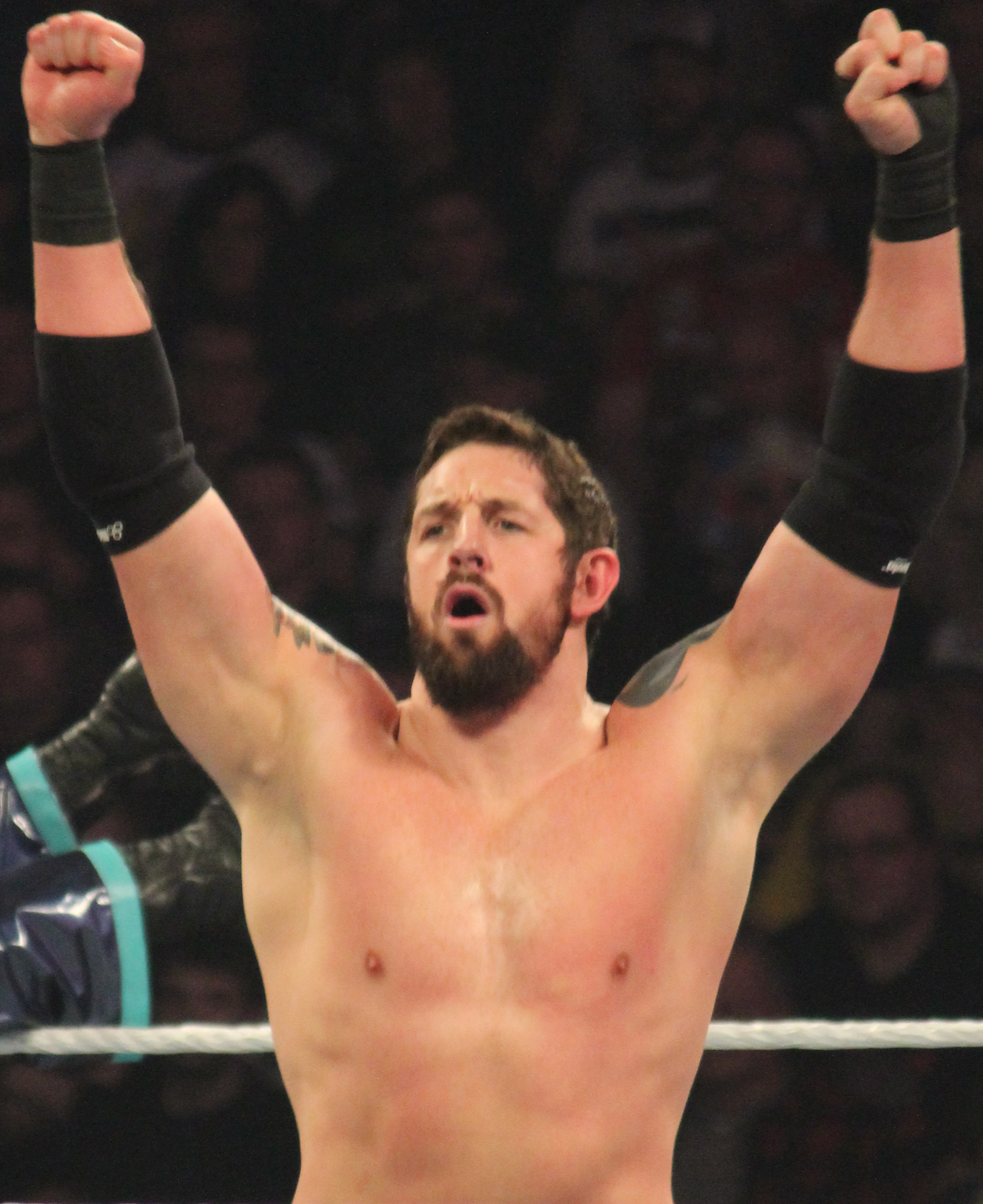 Professional wrestler Wade Barrett in April 2014.